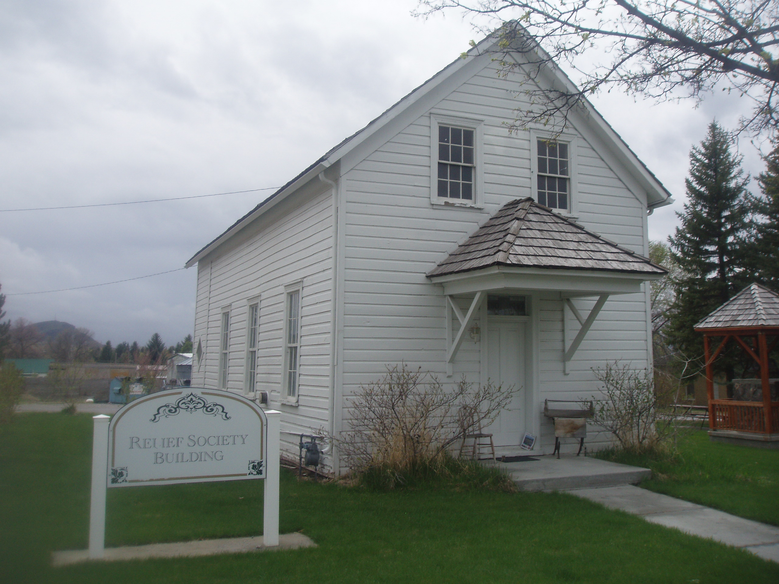 The Richmond Relief Society Hall, a historic building in Richmond, Utah, United States.